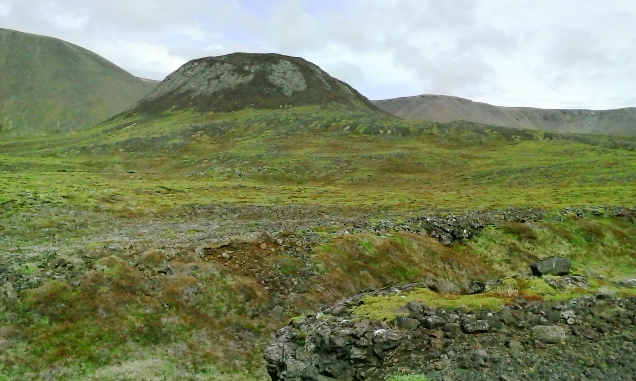 Eldborg near Krýsuvík, Iceland